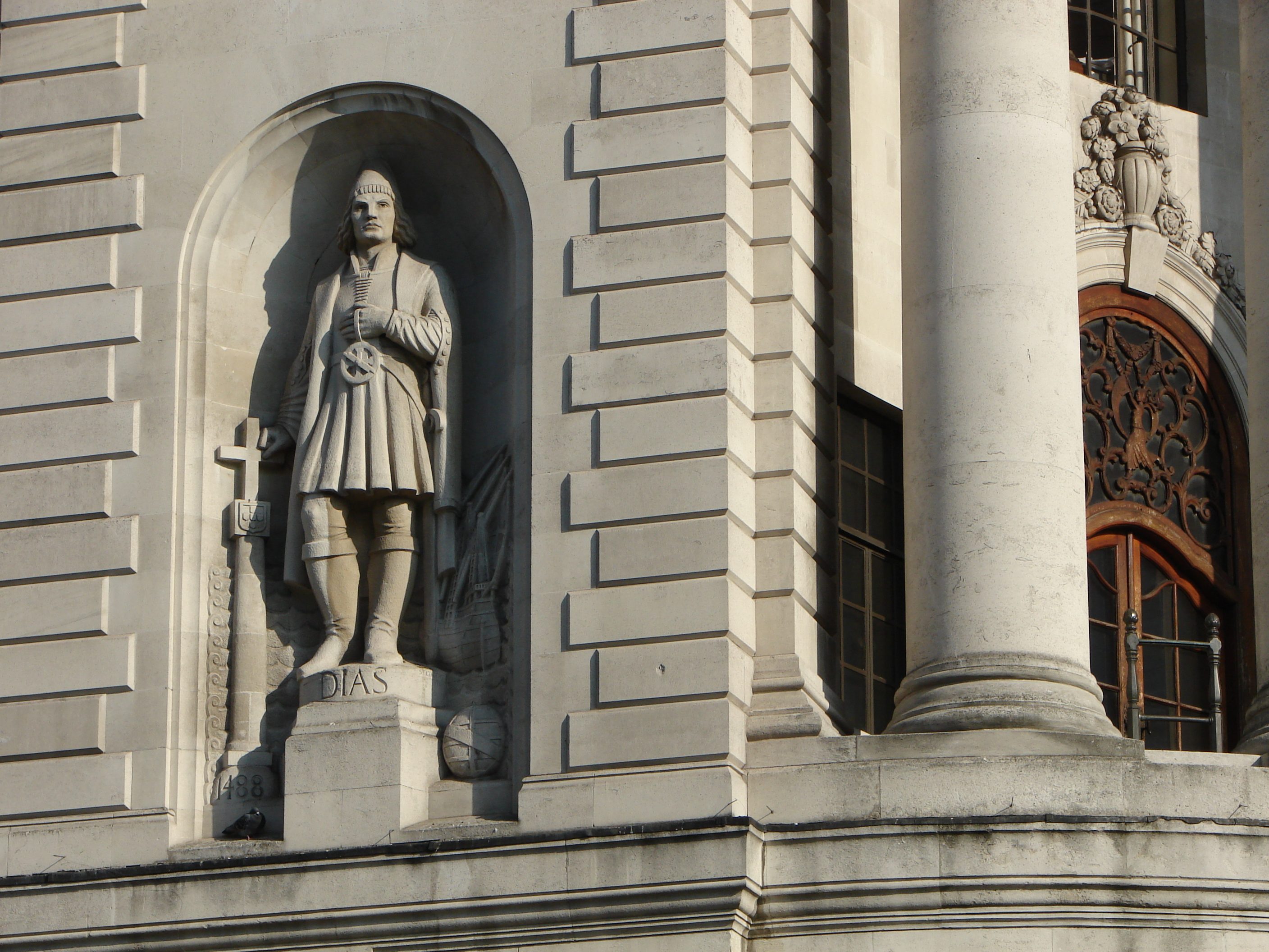 Statue of Bartolomeu Dias at the High Commission of South Africa in London